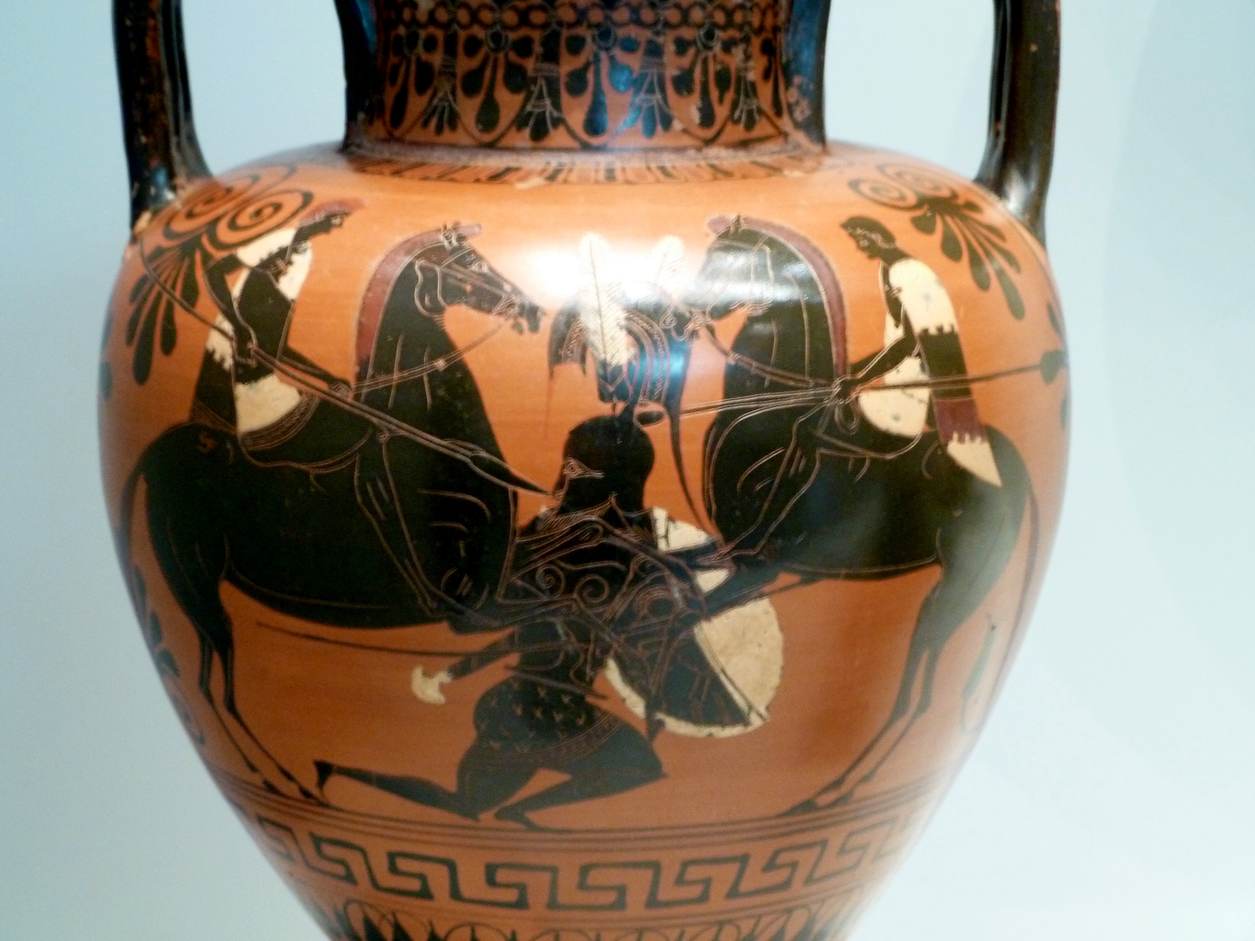 Storage Jar with Cavalrymen (Greek, Athens, 530-520 BC) - Two Thracian cavalrymen vs an armored Greek foot soldier.